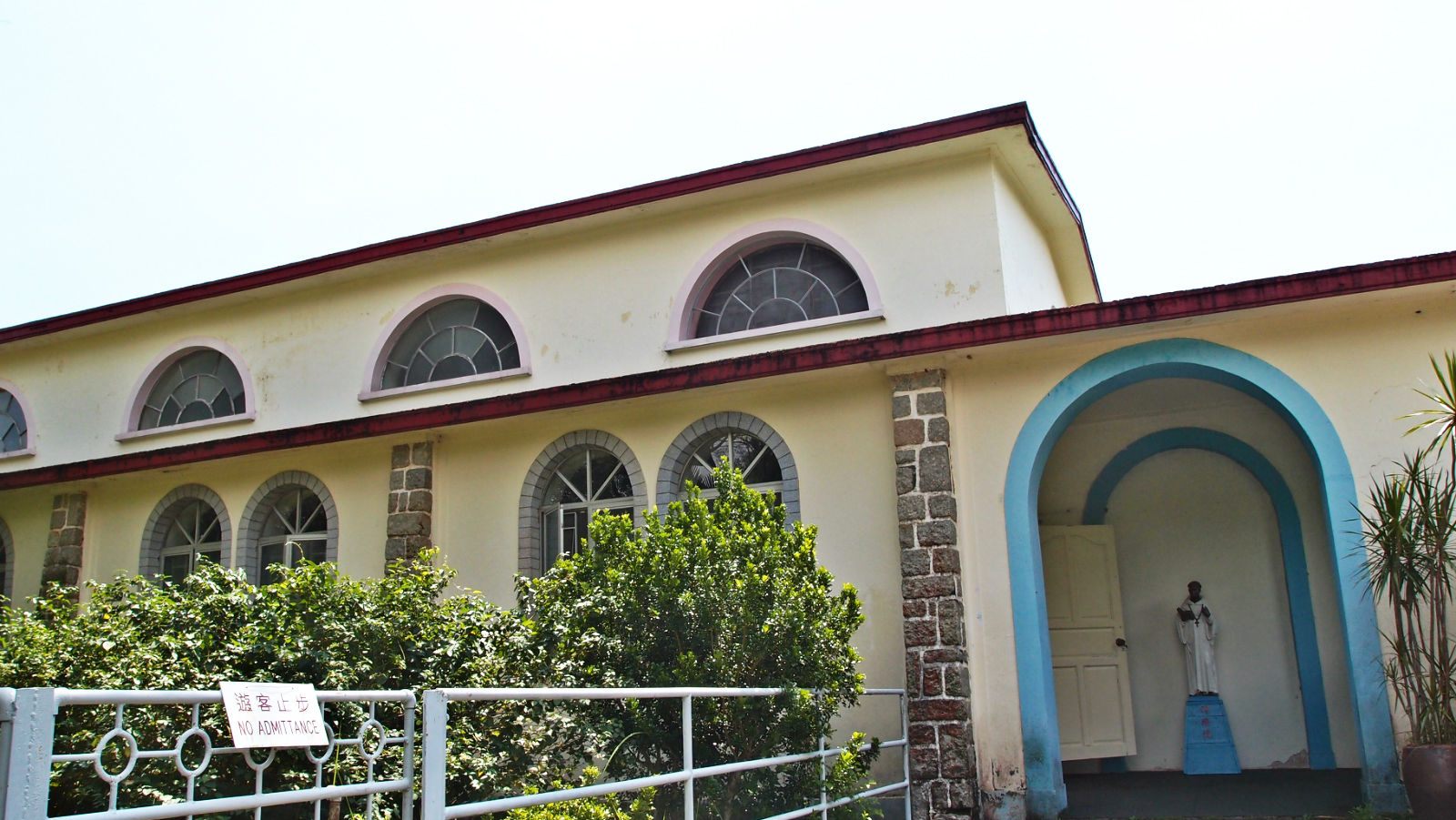 教堂外的庭園禁止遊人進入